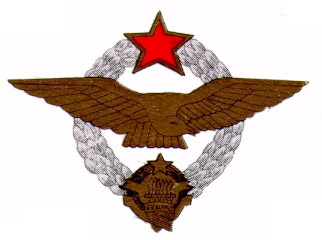 Airman sign, Air force